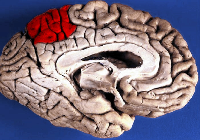 Human brain - inferior-medial view Human brain - inferior-medial view - The Lobes # Gyrus frontalis superior # Lobulus paracentralis # Precuneus # Cuneus # Gyrus occipitotemporalis medialis # Gyrus occipitotemporalis lateralis # Gyrus temporalis inferior # Gyrus parahippocampalis # Uncus # Lobus limbicus # Gyrus cinguli # Corpus callosum, Rostrum # Corpus callosum, Genu # Corpus callosum, Truncus # Corpus callosum, Splenium # Ventriculus lateralis # Thalamus # Sulcus cinguli # Sulcus parietooccipitalis # Sulcus calcarinus # Sulcus hippocampalis # Sulcus collateralis (font: arial black, size: 12)